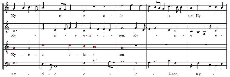 First bars of Missa L'Homme armée by Johannes Ockaghem. L'Homme armée -cantus firmus shown in red.